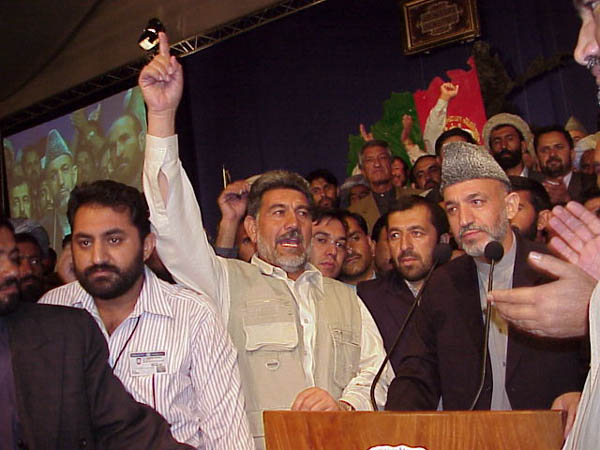 Chairman Hamid Karzai surrounded by supporters after his victory in balloting at the Loya Jirga, or Grand Council. He won the most votes of the 1500-member council, and will be Afghanistan's president for up to two years.